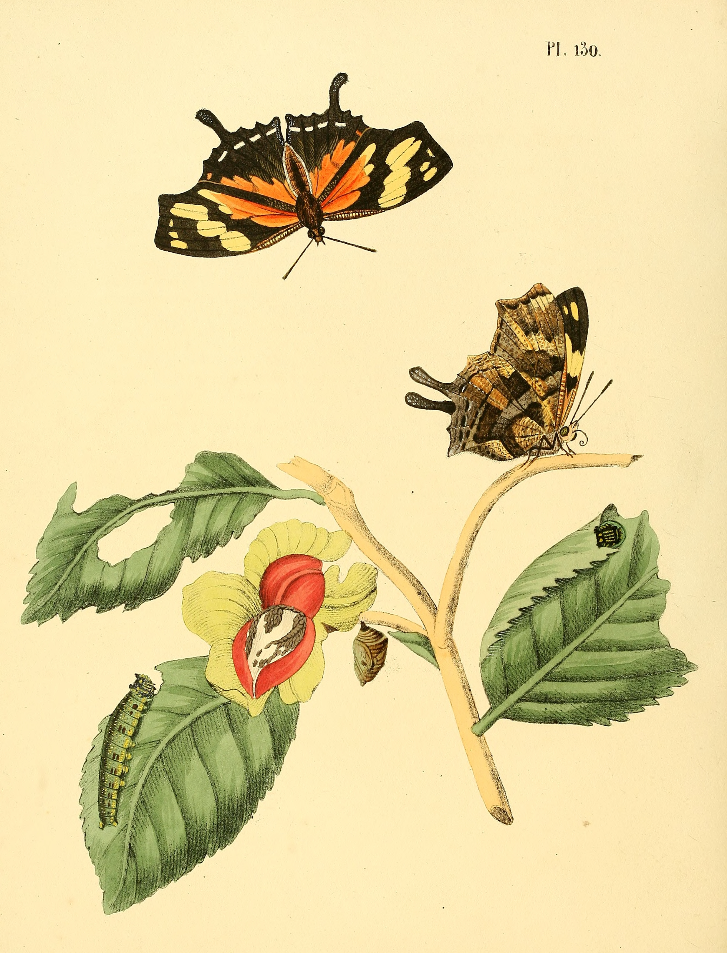 Illustration of: Consul fabius (as syn. Papilio fabius)